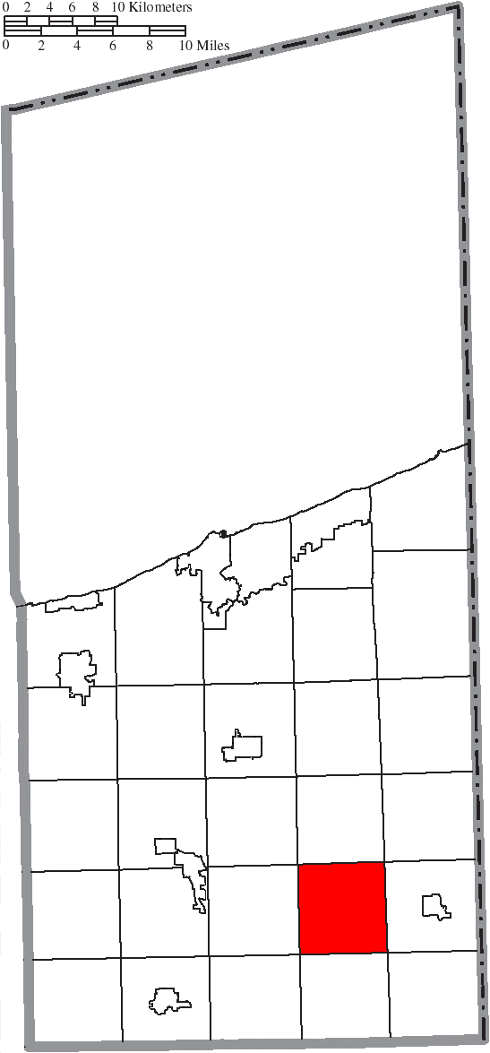 Map of the municipal and township boundaries of Ashtabula County, Ohio, United States, as of the 2000 census, with the location of Cherry Valley Township highlighted. Township borders are shown only in unincorporated areas in order to differentiate incorporated and unincorporated areas more clearly.